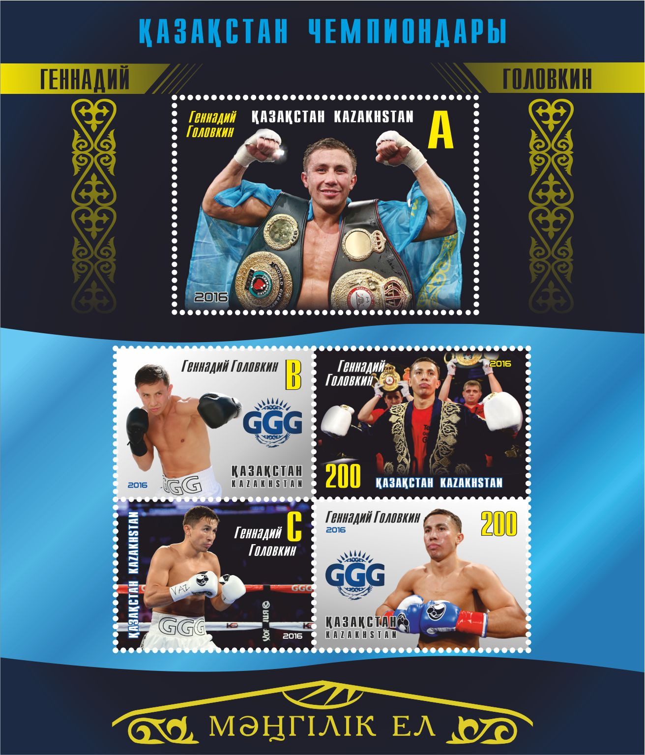 Gennady Golovkin